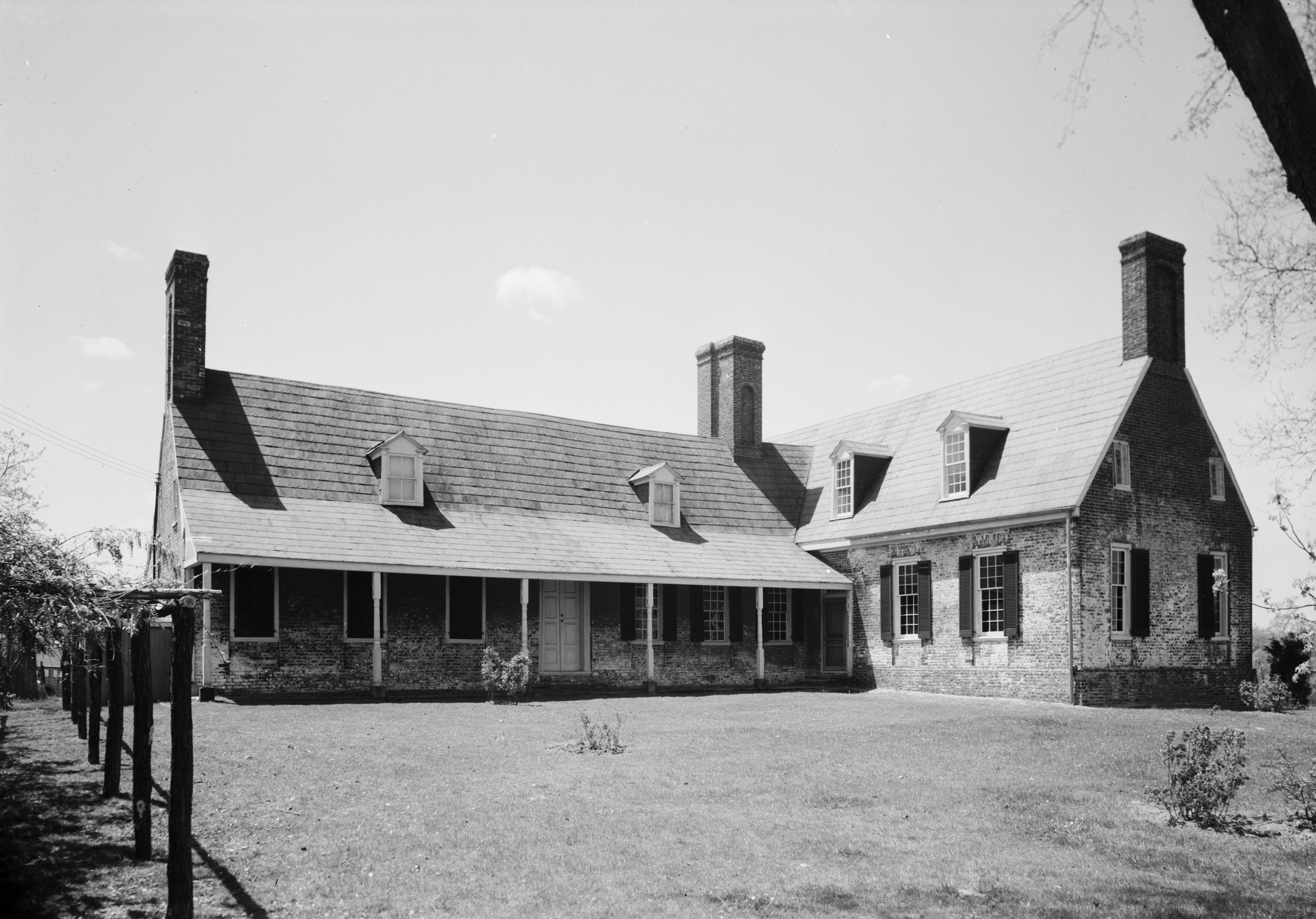 Eastern side of Holly Hill, located southeast of Friendship off Maryland Route 631 in Anne Arundel County, Maryland, United States. Built in 1667, it is listed on the National Register of Historic Places.